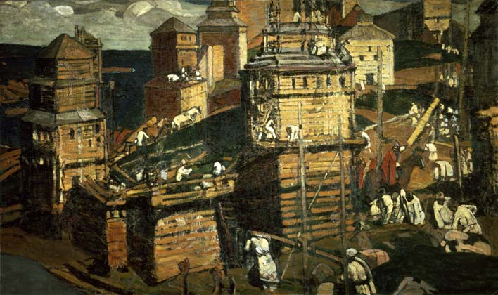 The Town Is Being Built (1902). Tretyakov Gallery, Moscow.